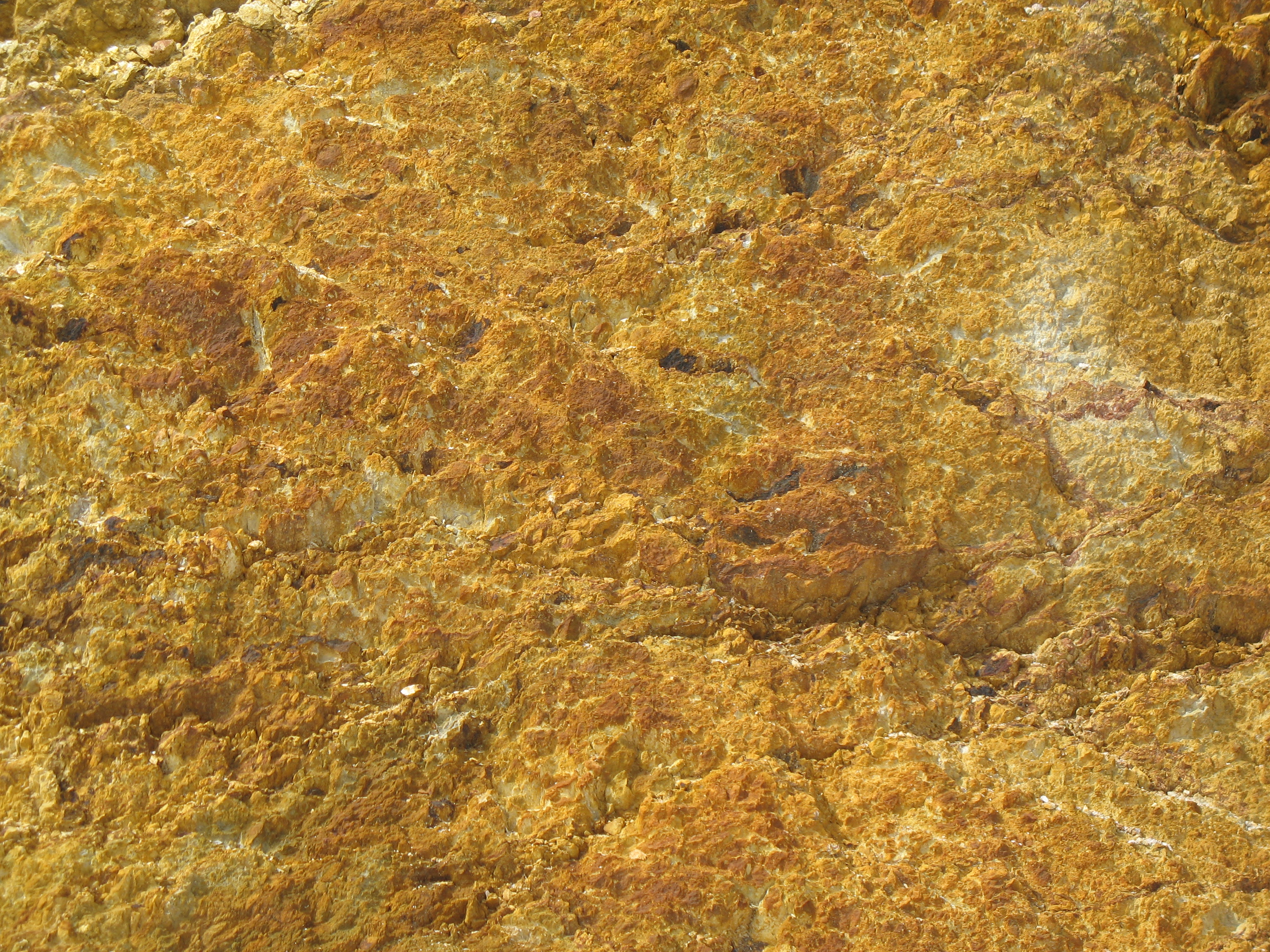 A close-up photo of rock in the mountains surrounding Queenstown, Tasmania.